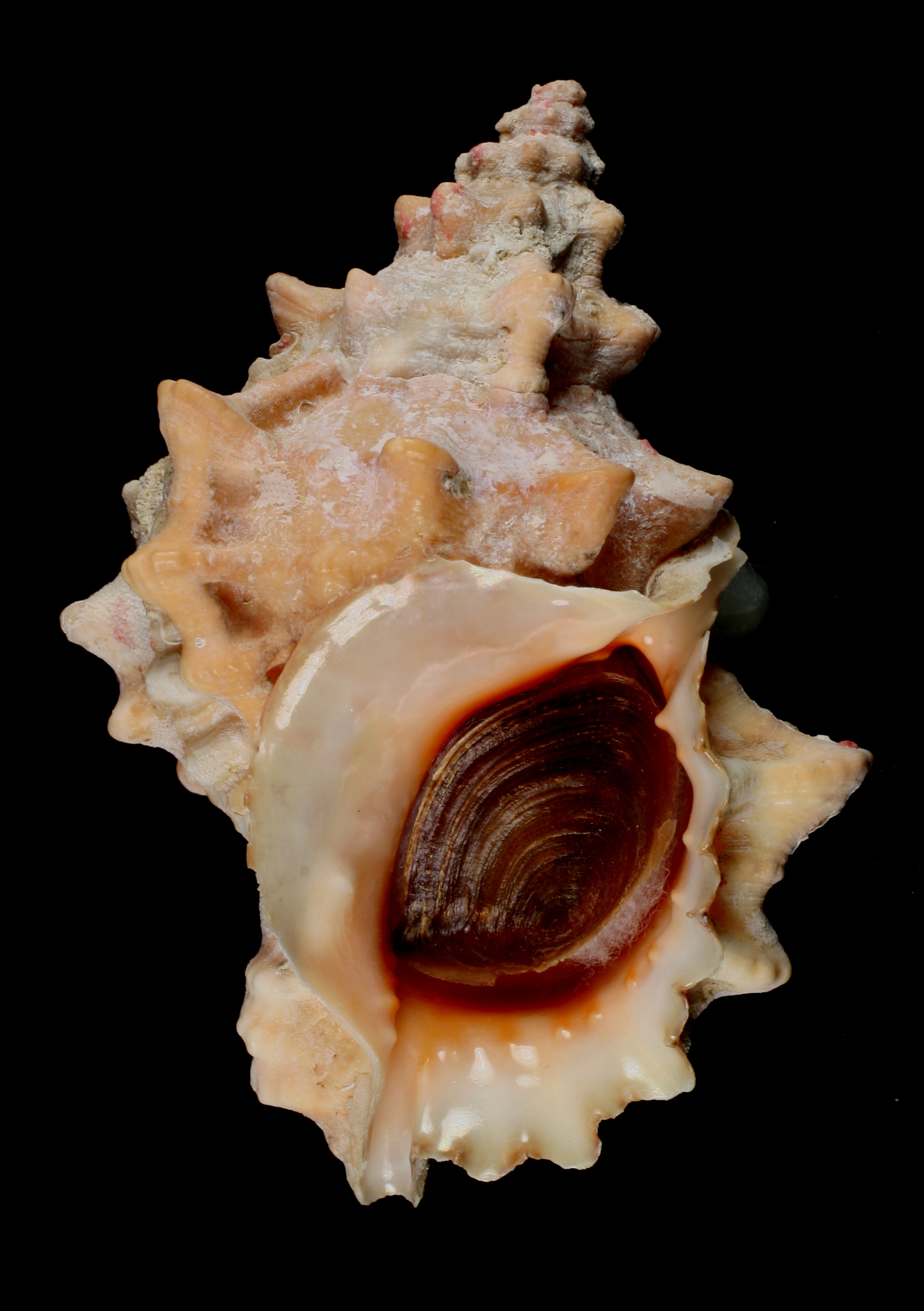 Bursidae: Tutufa bufo (Röding, 1798)